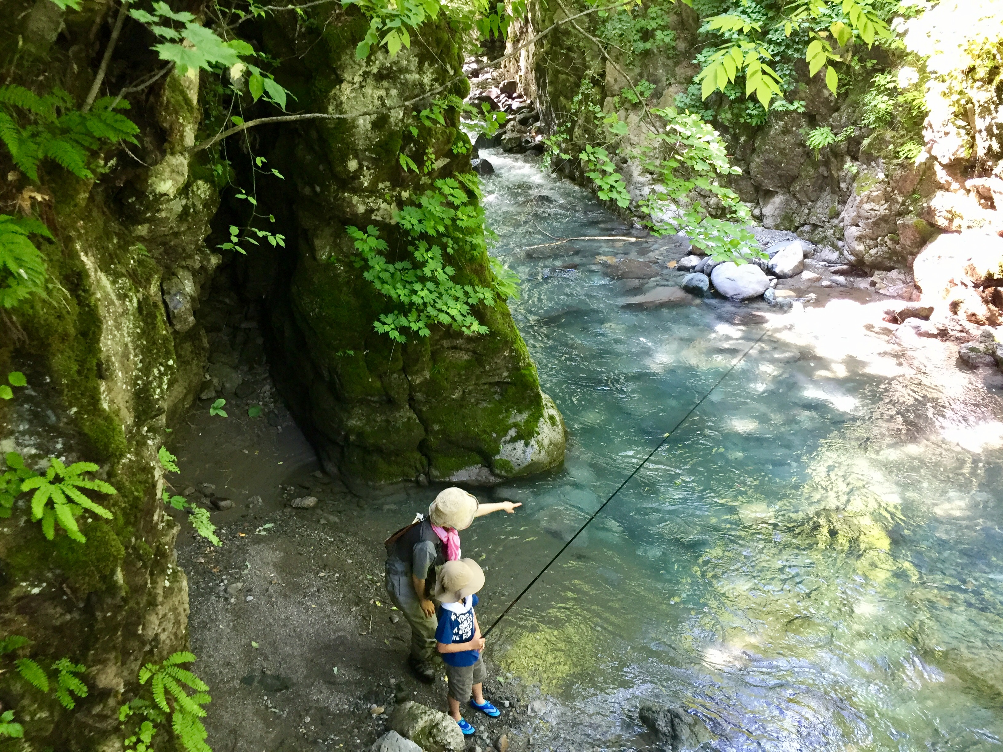 Okaru Cave